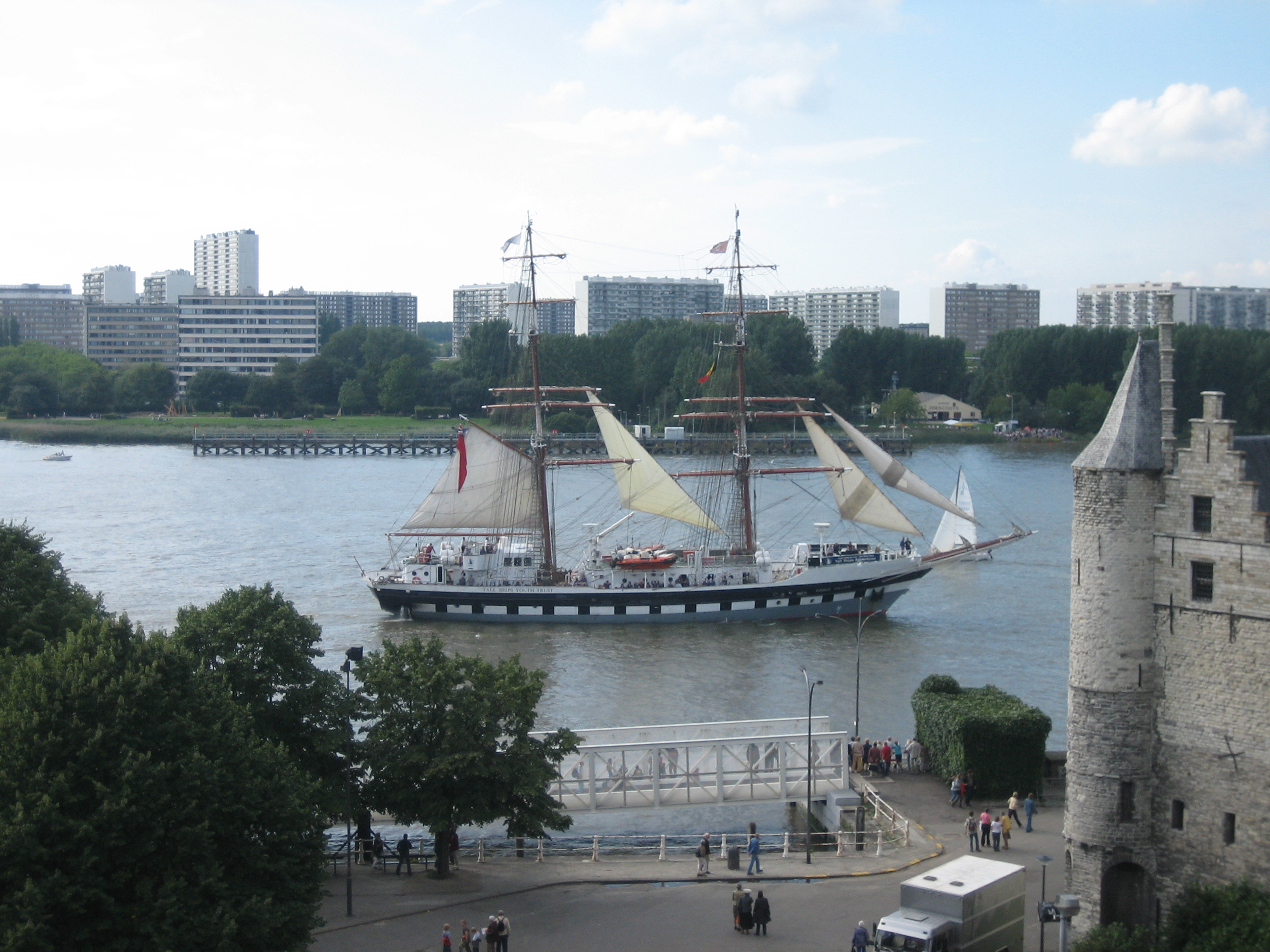 Prince William STS sailing ship, during Tall Ships Race, Antwerp, August 2006